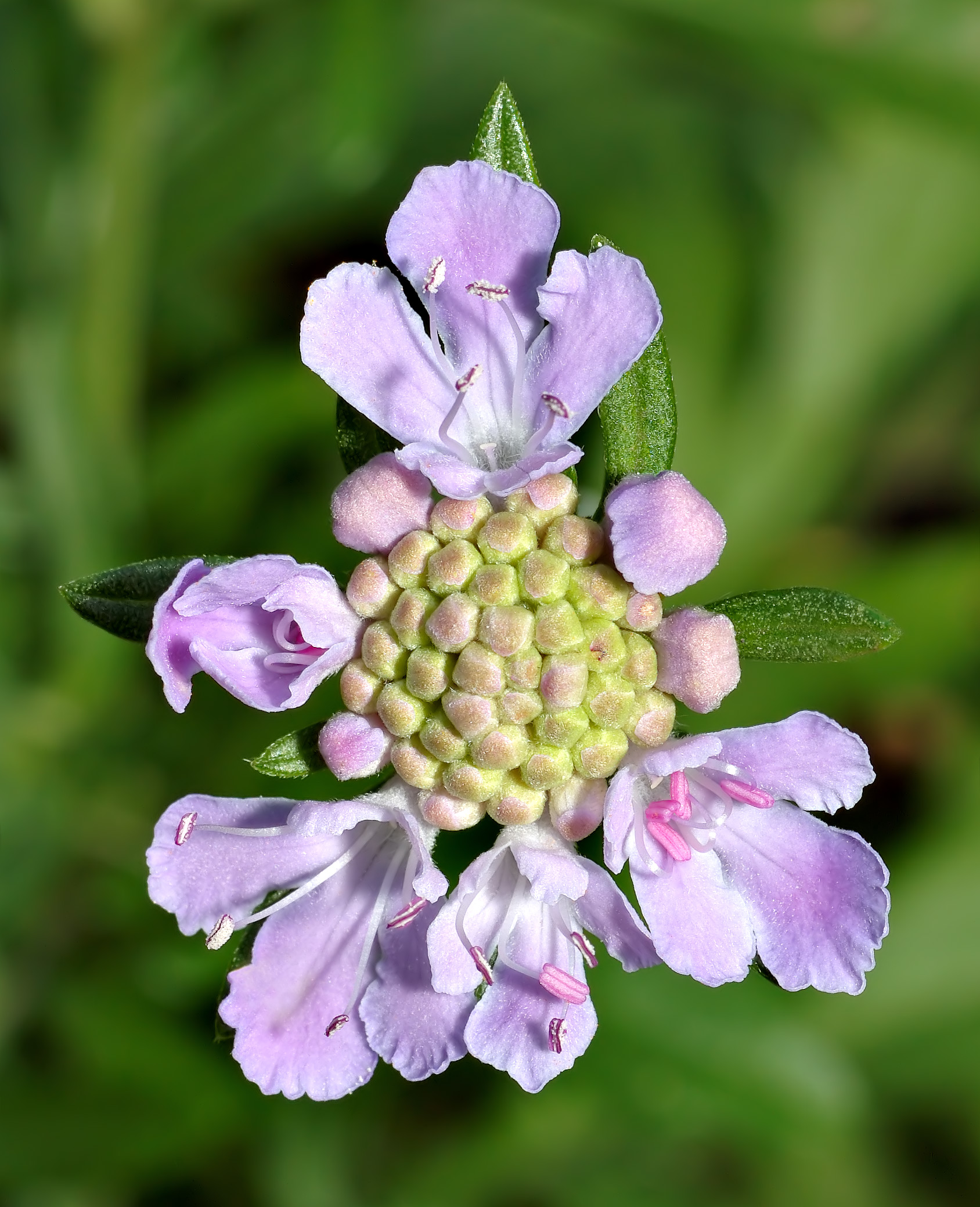 This image shows a plant of the species Scabiosa japonica.